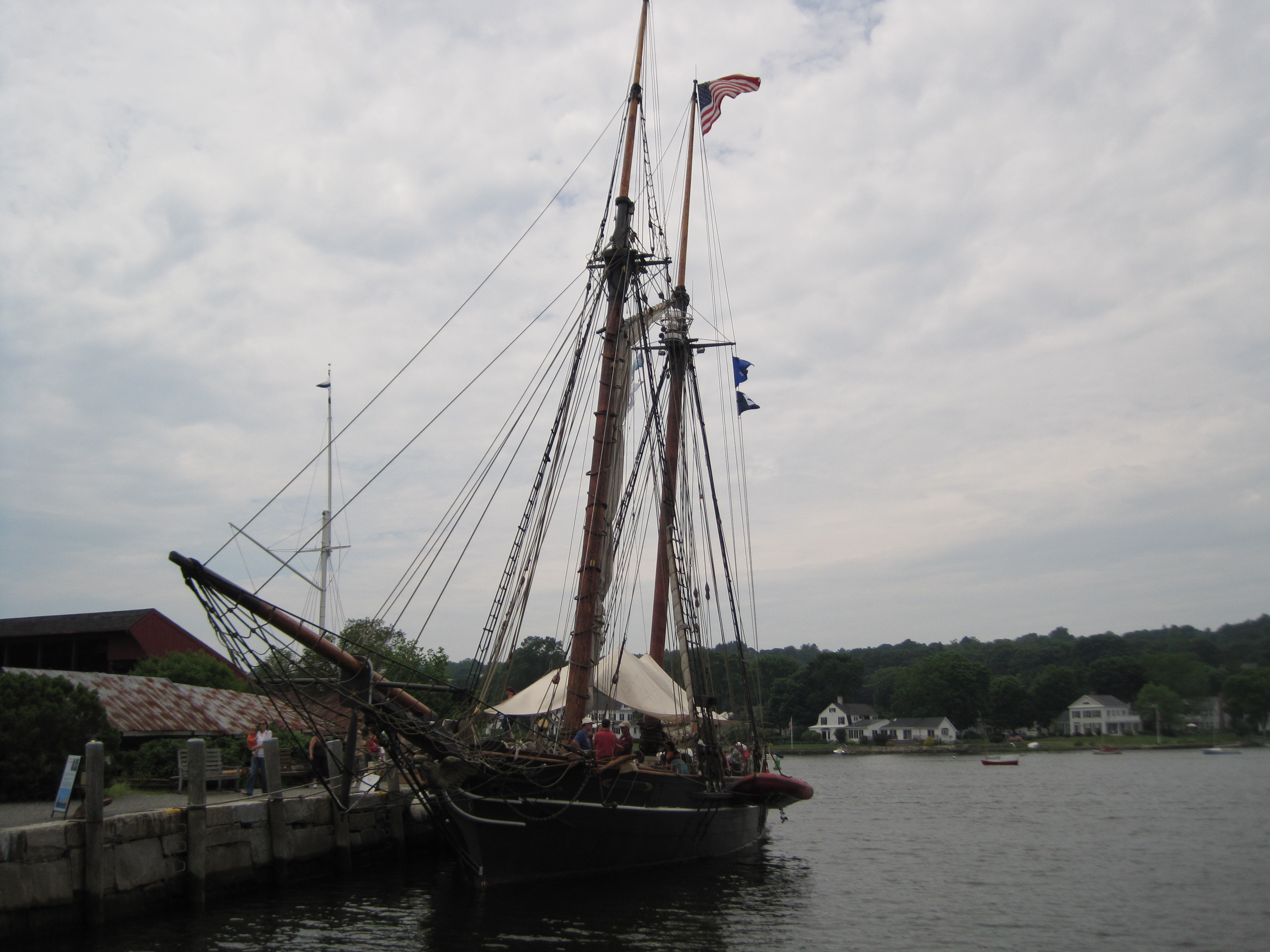 The Amistad at Mystic Seaport in 2010.